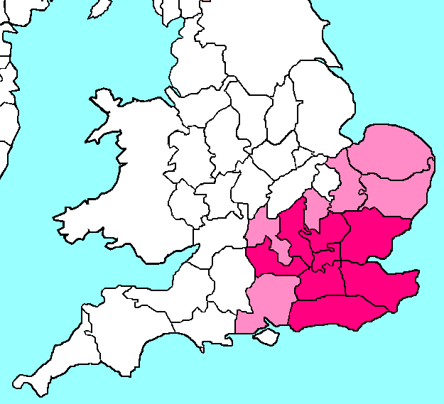 Map of counties in the Home Counties of England. Counties typically included are in pink, counties sometimes included are in light pink.